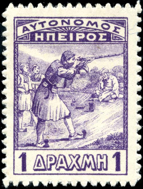 Epirus 1-drachma stamp of 1914